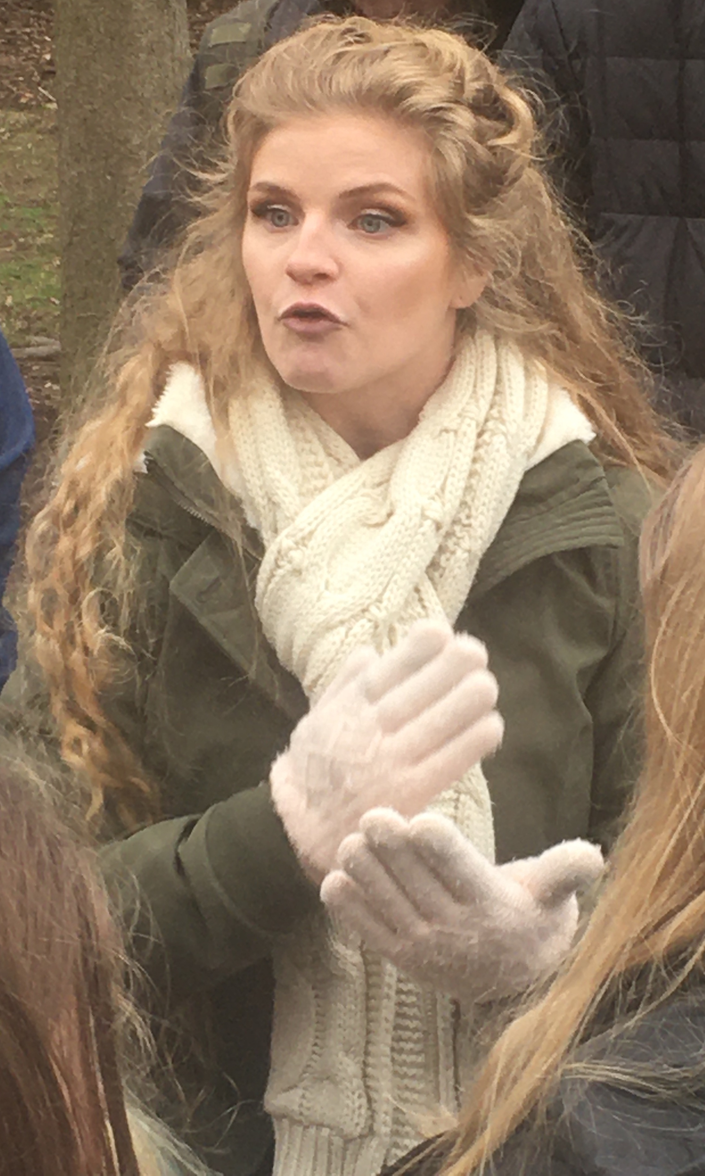 Kaitlin Bennett at University of Akron, 2020